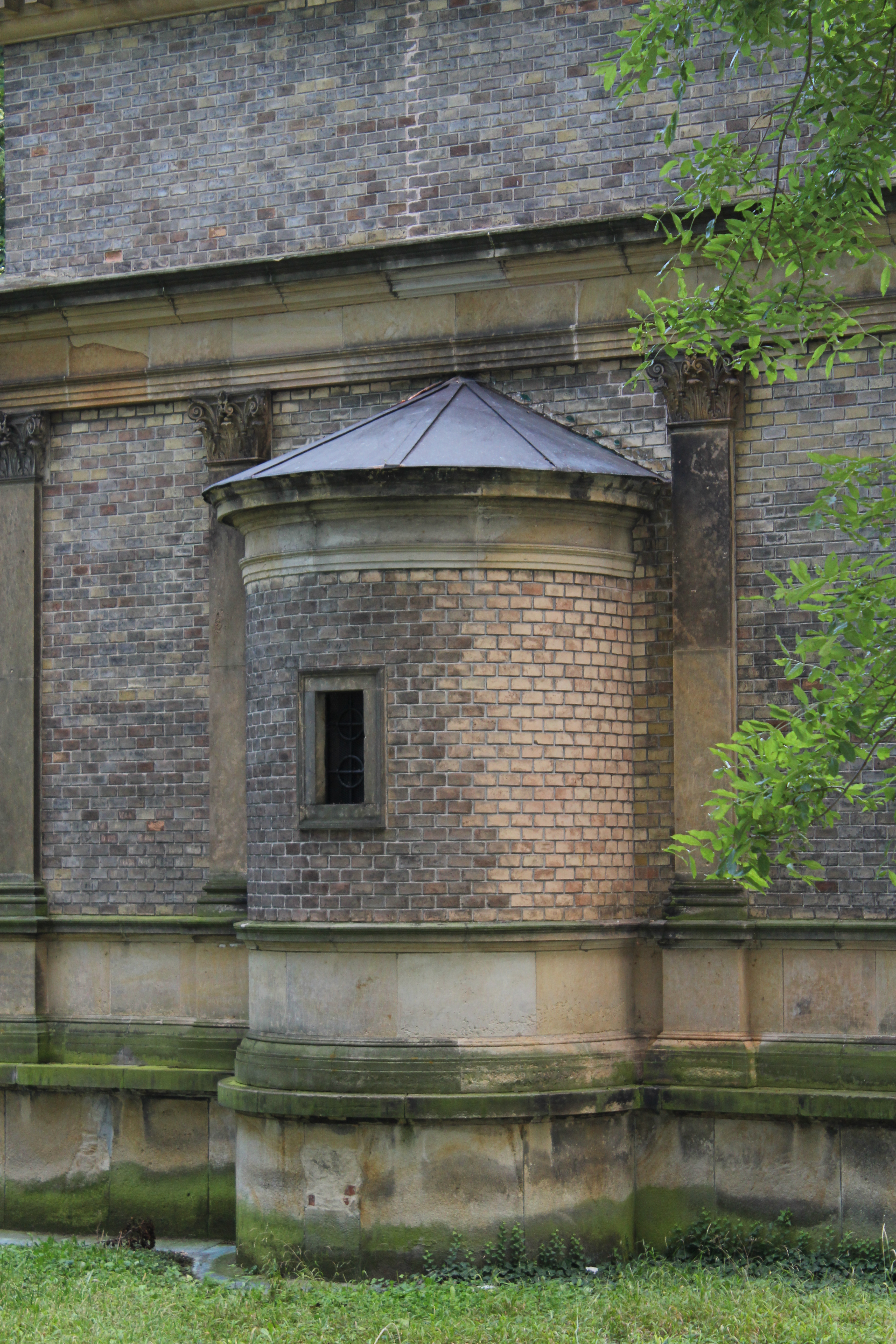 funeral Chapel